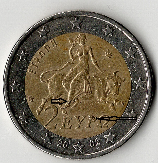 Pièce grecque de 2 € 2002 S avec surplus de métal. Elle est en tous points similaire à la monnaie prétendue rare. Les flèches noires pointent les surplus de métal.